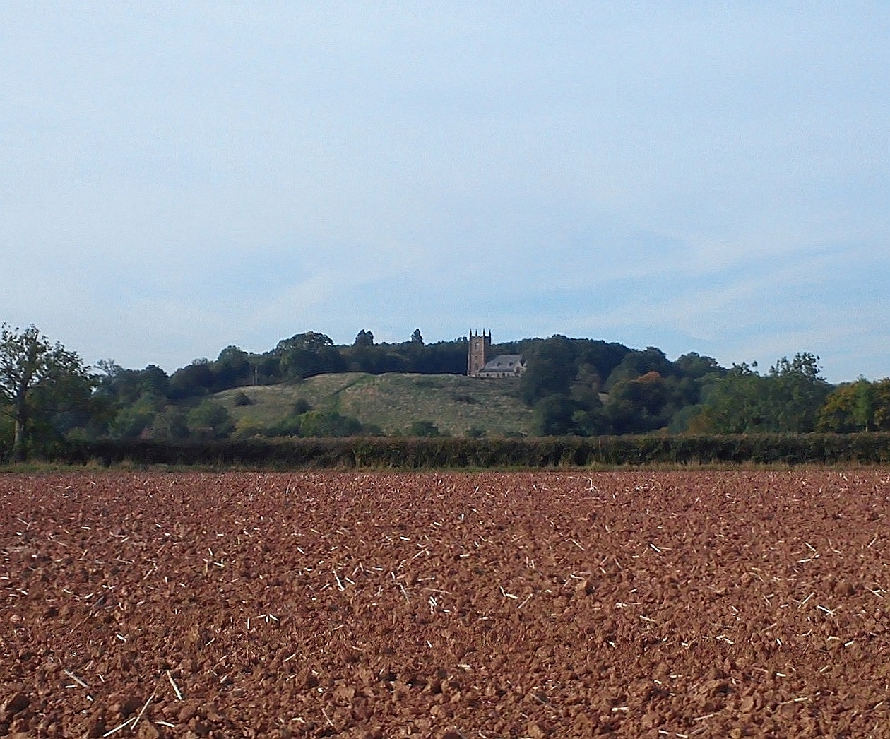 Hanbury, Worcestershire, England: View of St Mary's Church and the hill